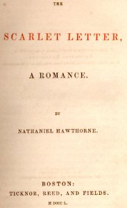 This is the title page for the first edition of The Scarlet Letter, published in 1850. It is in the public domain.